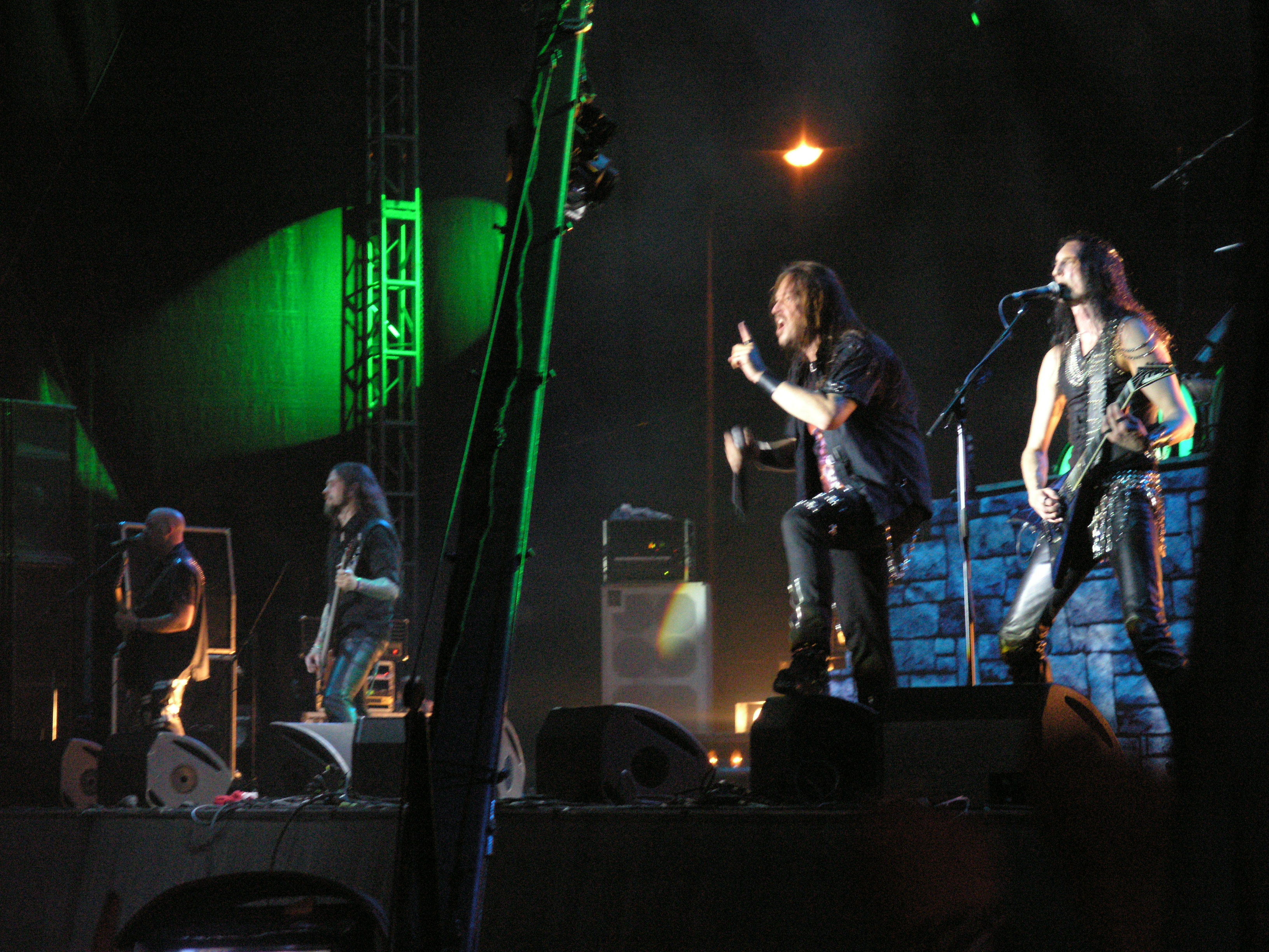 Music band Hammerfall during Masters of Rock 2007 festival